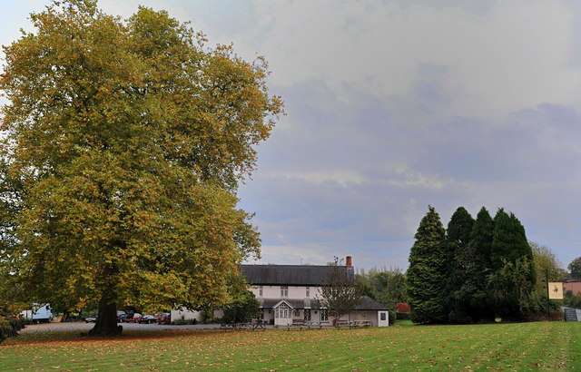 The Clytha Arms This is the view of the Clytha Arms Public House when travelling Eastwards along the A40 main road. In times gone by,the pub was known as the Swan. If you look very carefully you can see a Swan on the pub name board near the road.